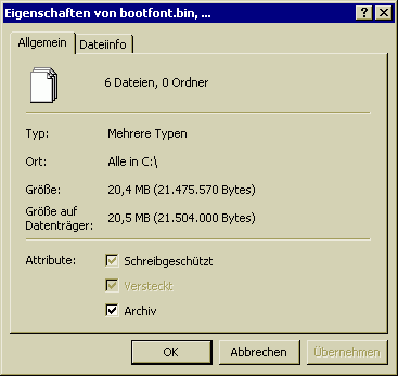 Window with multiple file properties (e.g. to illustrate the function of checkboxes); screenshot, classic design